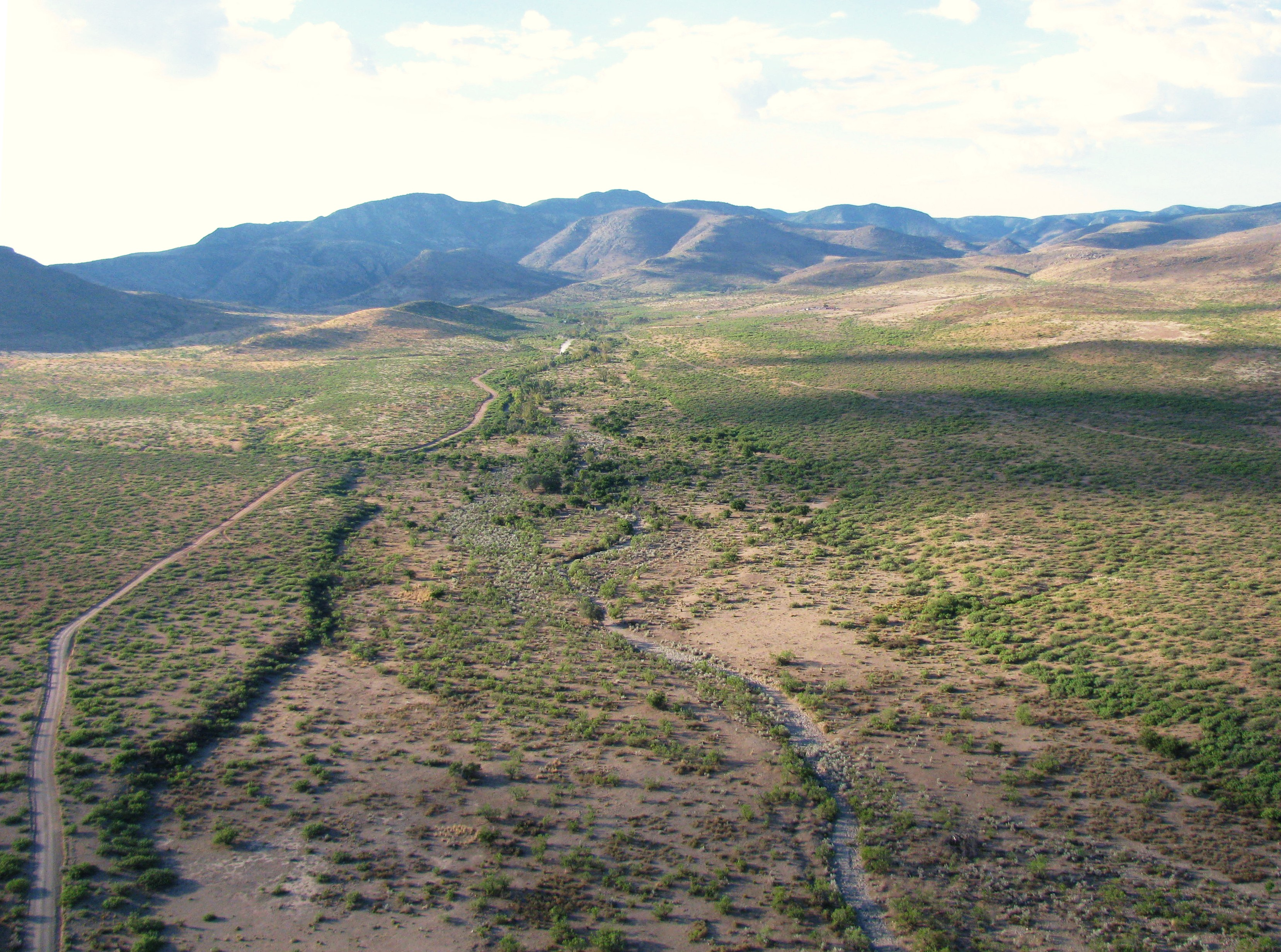 A low level aerial photograph of the entrance to Skeleton Canyon in the Peloncillo Mountains